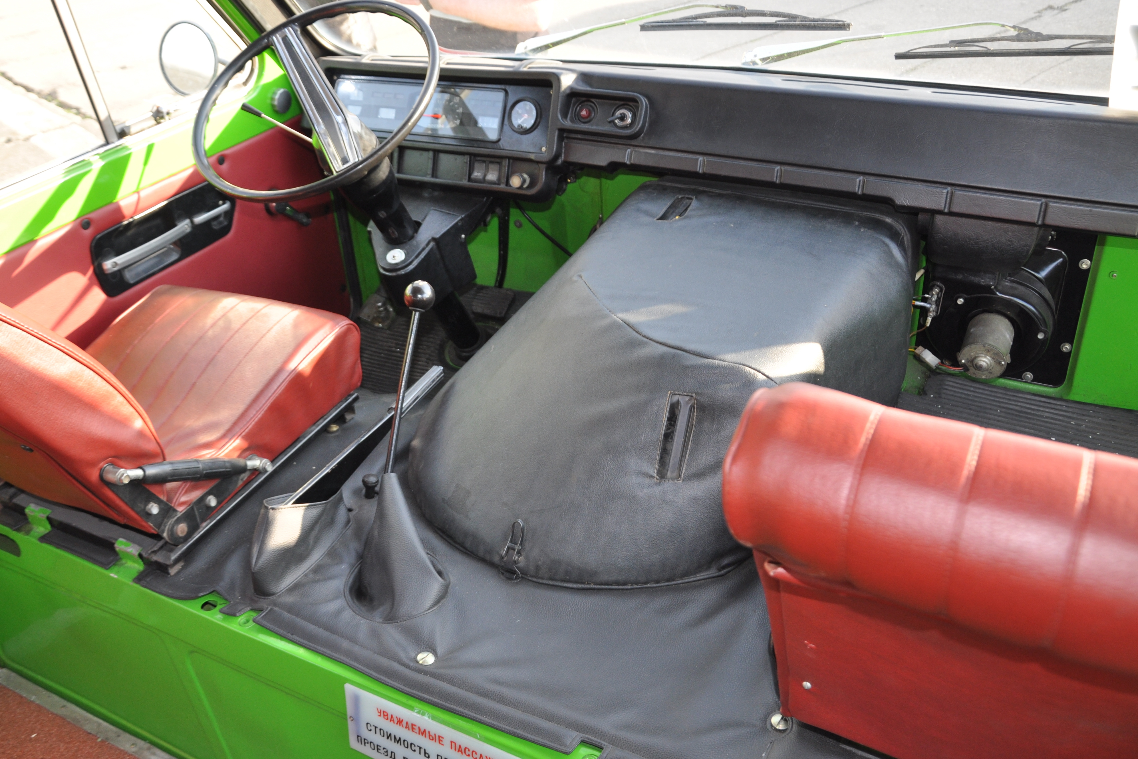 RAF-2203 driver's seat